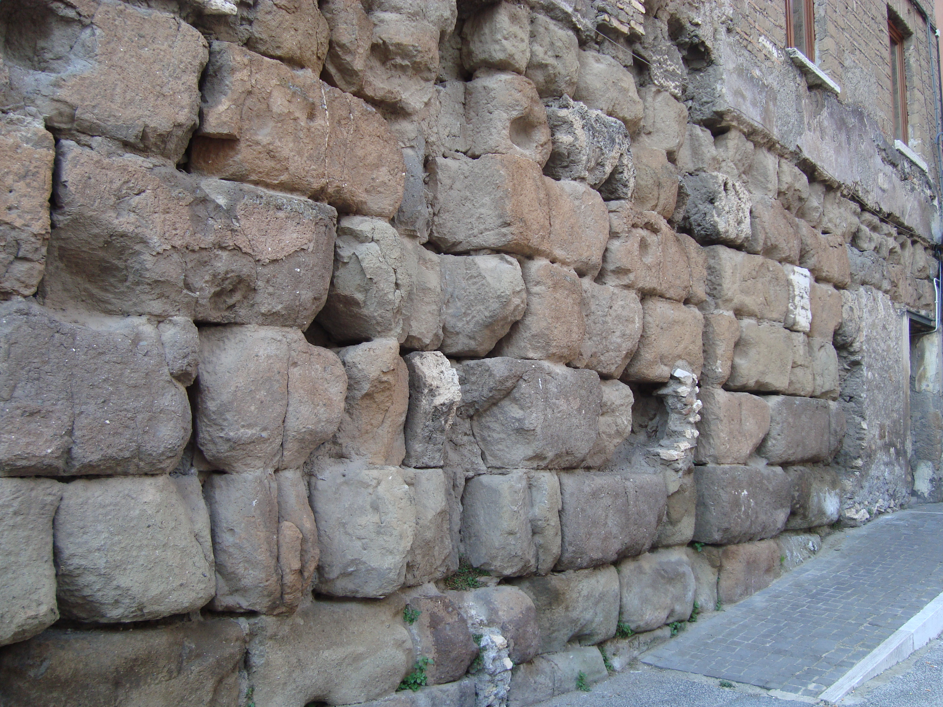 Details of the antique walls of the city of Tivoli dating from the 4th century BC. Nowadays, they sustain the palazzo San Bernardino (home of the cityhall)